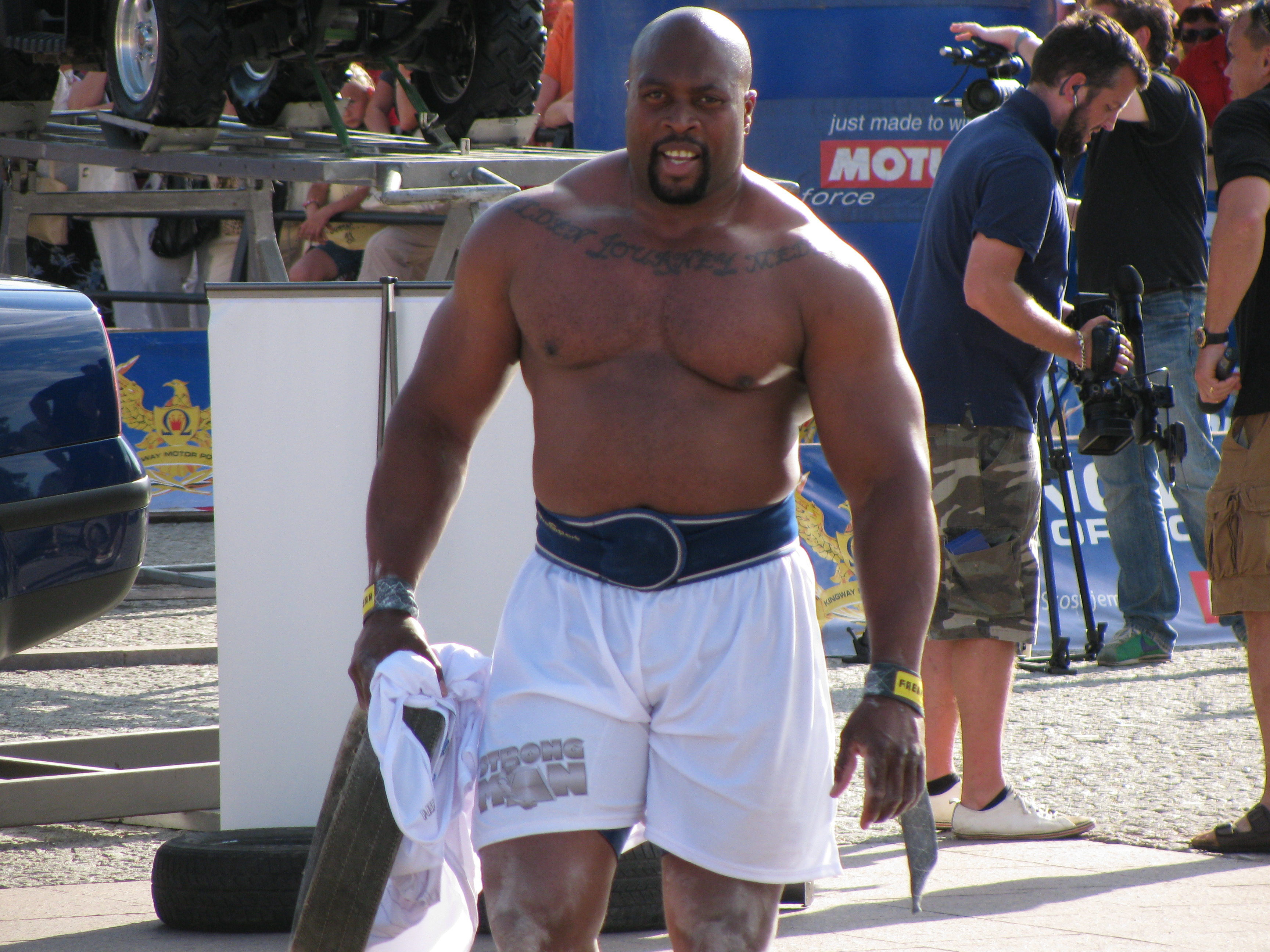 Mark Felix - a strength athlete from Grenada & England. Giants Live, Poland.